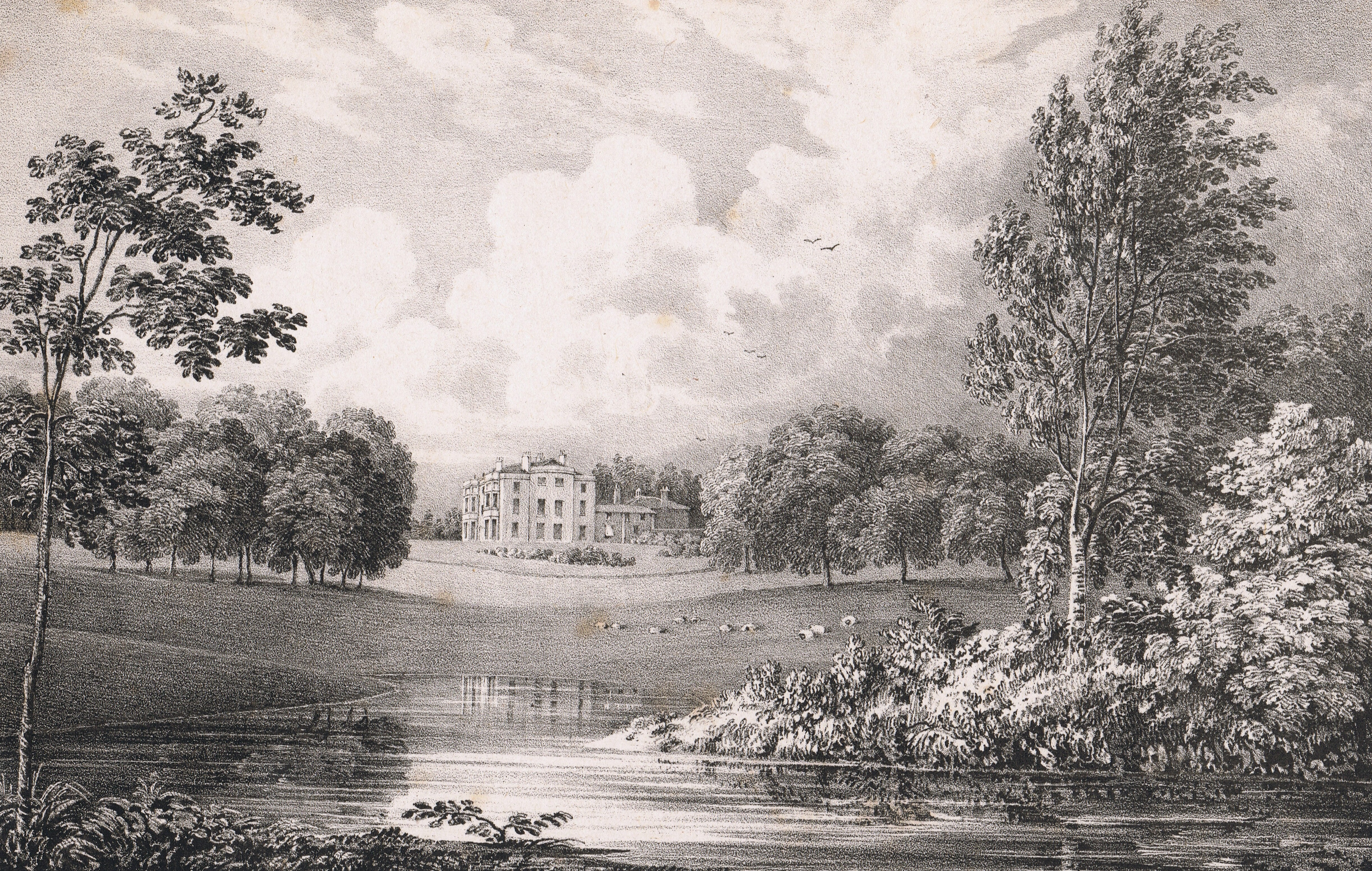 Portnall Park, an estate at Virginia Water, Surrey, England, UK, "... three miles distant from Egham and twenty-one from London", which was once owned by, among others, Colonel Thomas-Chaloner Bisse-Challoner. Also known as Portenhall, Potnalls or Potenhall, it was a manor within a manor that passed from John Jebb, D.D. (died 1787), Dean of Cashel, to his younger son David (brother of John). David Jebb exchanged part of the property with some land in Egham with the Rev. Thomas Bisse, c. 1795. Mr. Bisse demolished the remains of ancient mansion and put up a new one which devolved on his death to his son in 1828. The son added more. The house and four-hundred acre park were sold by Col. Challoner's nephew by marriage to Walter George Tarrant in the 1920s and thus it was subsumed into the Wentworth Estate.